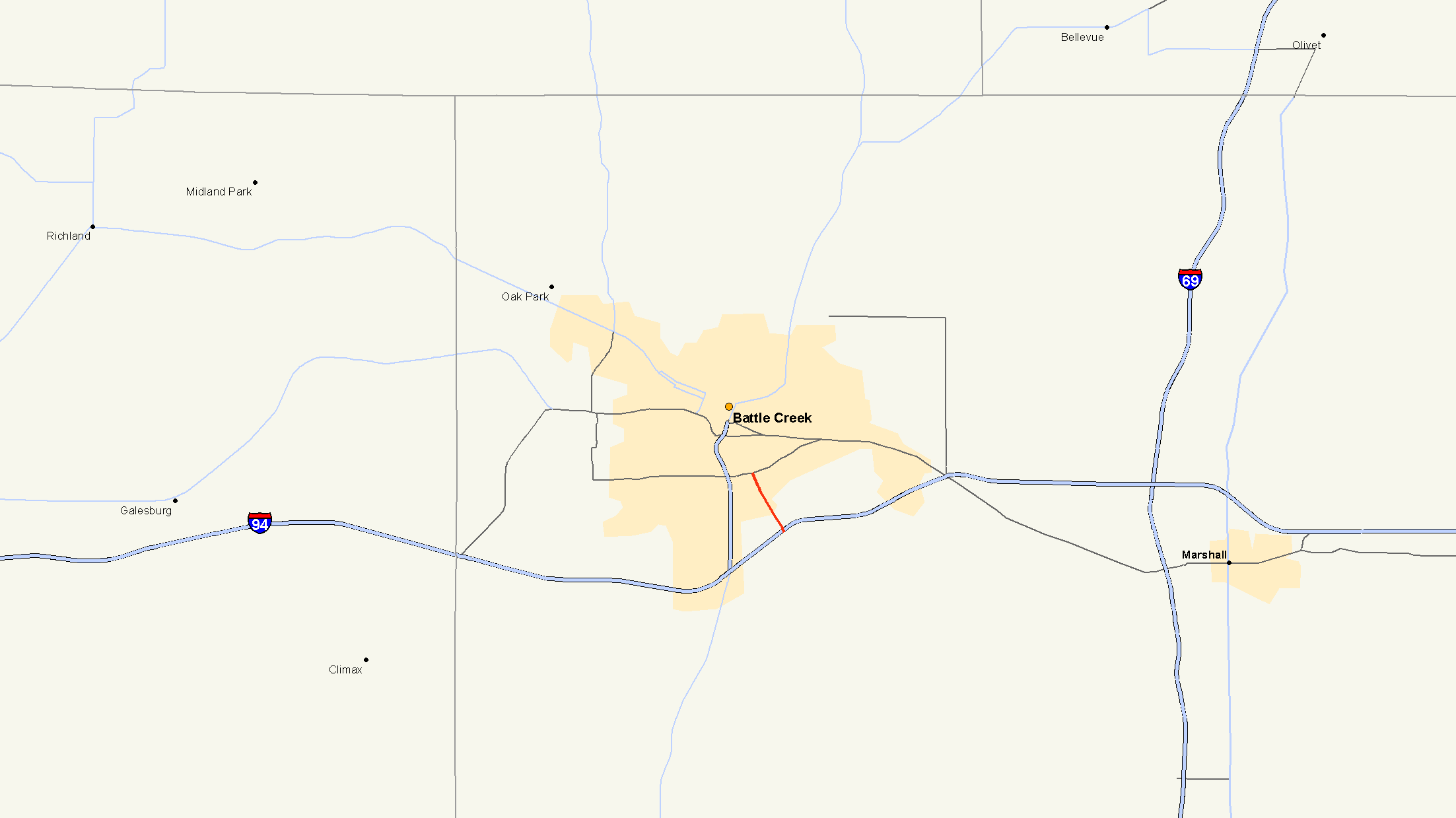 Map of Michigan State Route 294